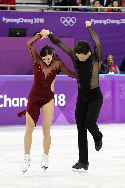 Tessa Virtue and Scott Moir at the 2018 Winter Olympic Games in PyeongChang